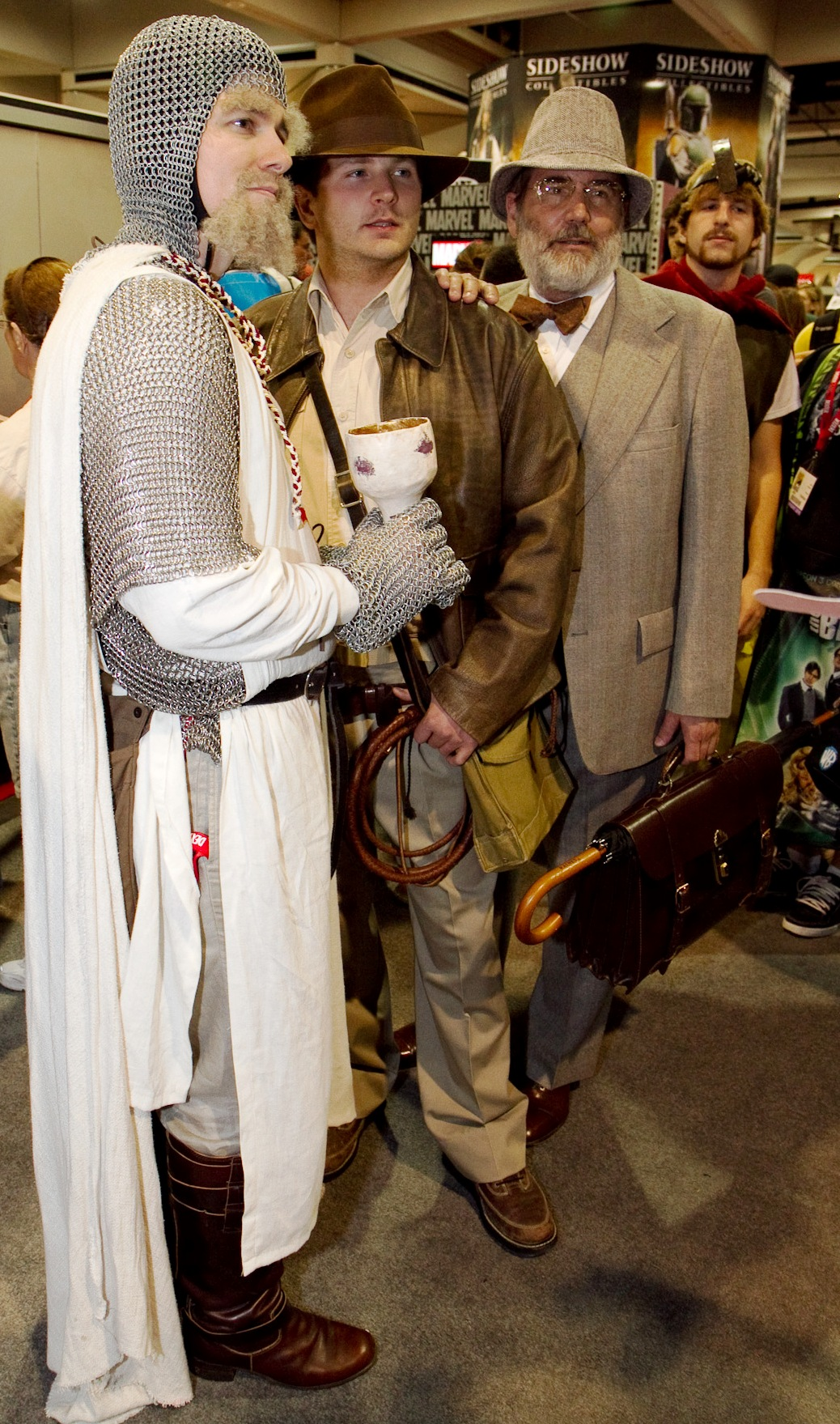 The Last Crusaders.